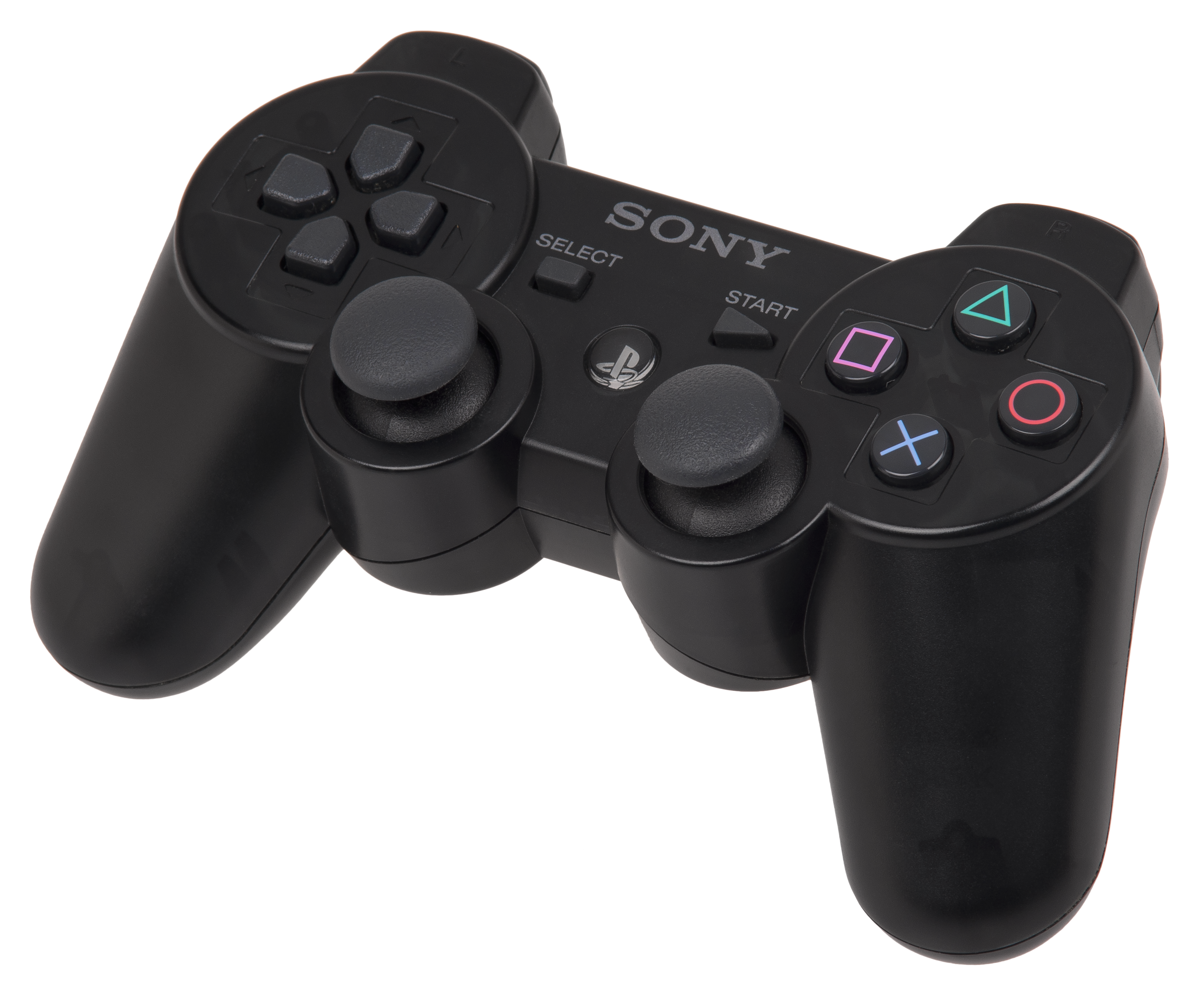 A Sony PlayStation 3 Sixaxis wireless controller, note that the casing is slightly translucent.